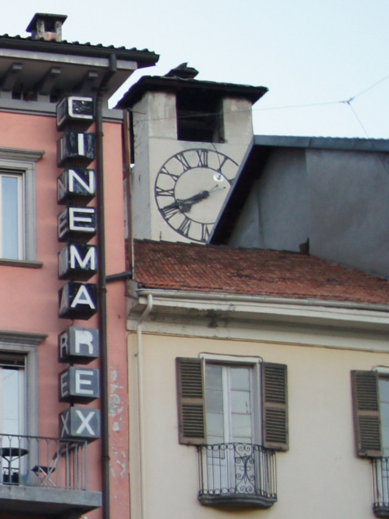 The clock tower "Torre del Comune" (Torre die Piazza) in Locarno